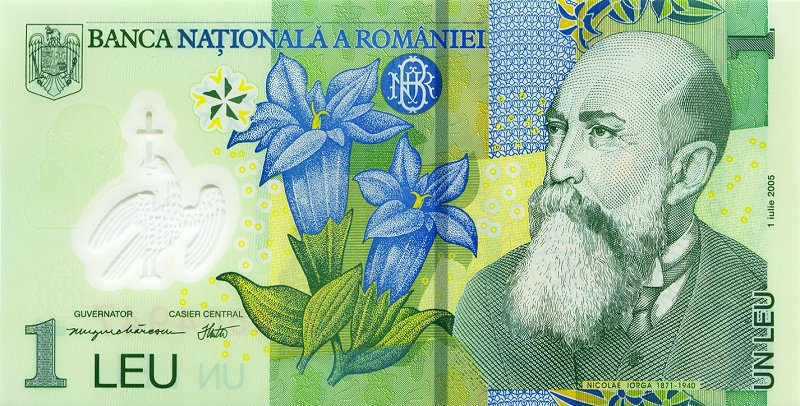 Banknote of the Romanian leu